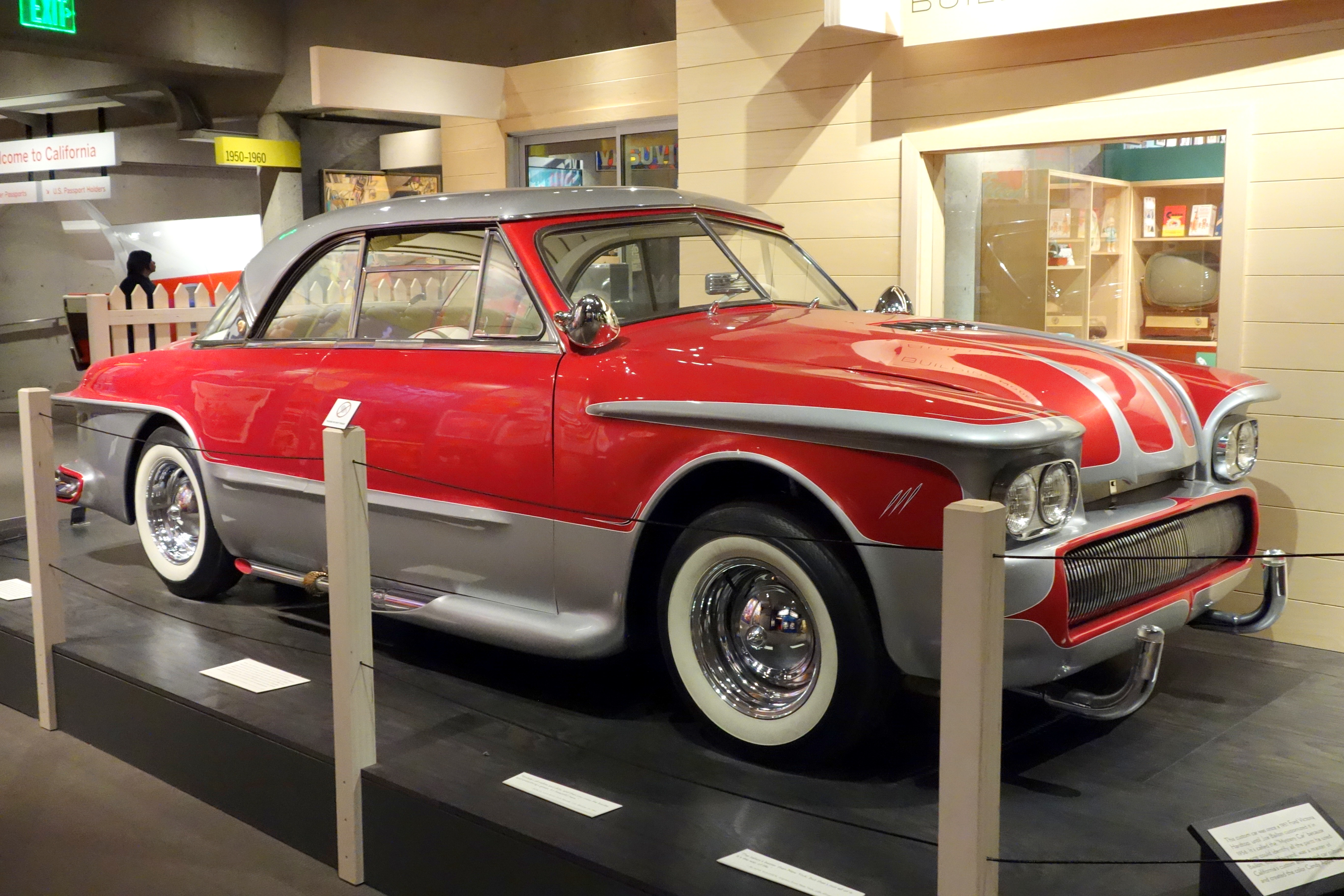 Exhibit in the Oakland Museum of California, Oakland, California, USA. This work is in the public domain because it was first published without a copyright notice prior to 1978.